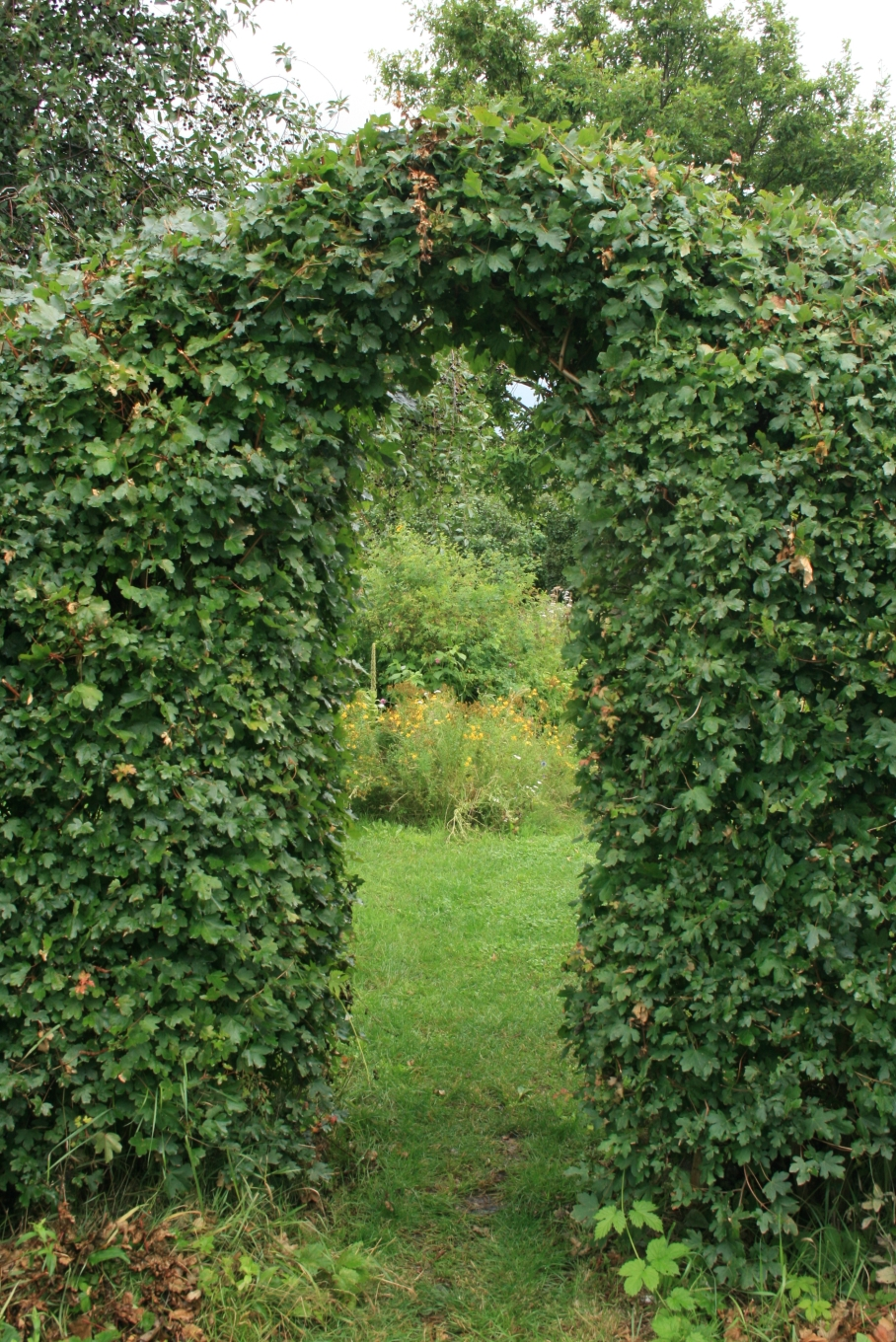 The village society of "Dyssekilde" at Torup, northern Sealand, Denmark